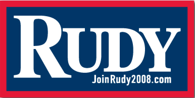 Rudy Giuliani presidential campaign logo